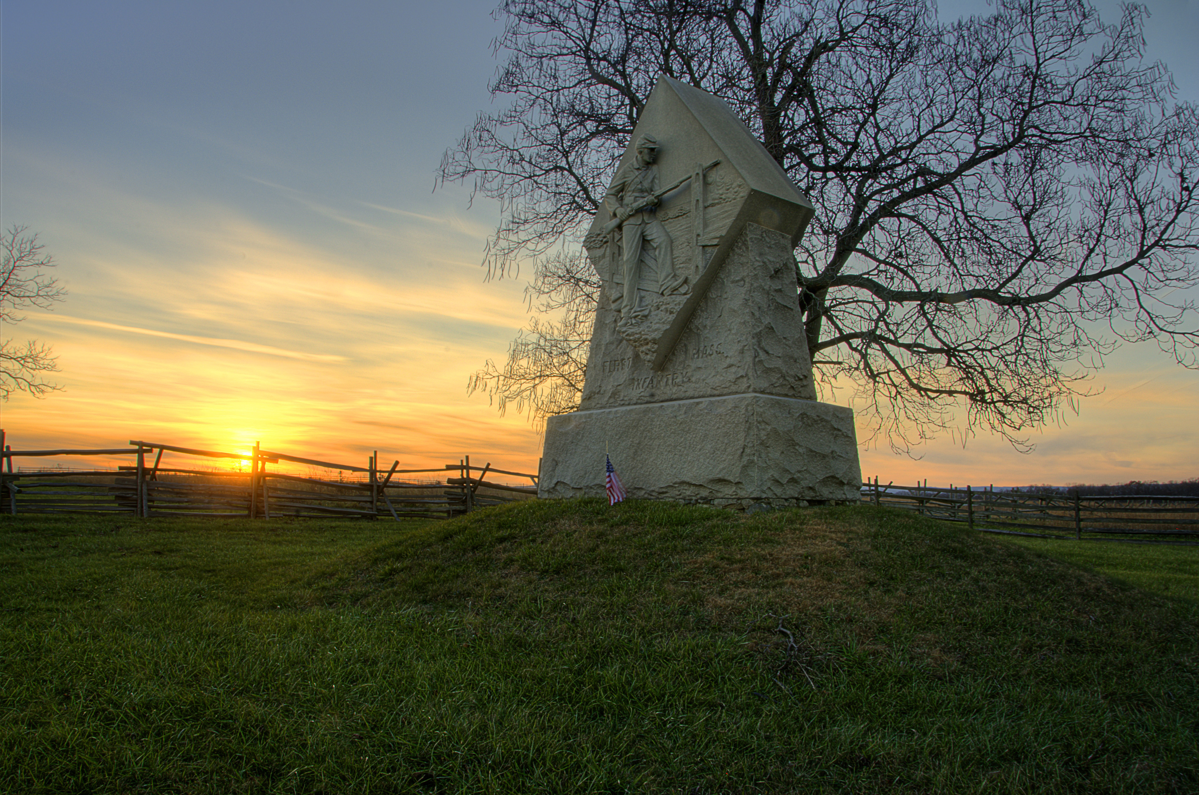 Gettysburg National Military Park, Gettysburg National Military Park, near Gettysburg Cumberland, Highland, and Straban Townships